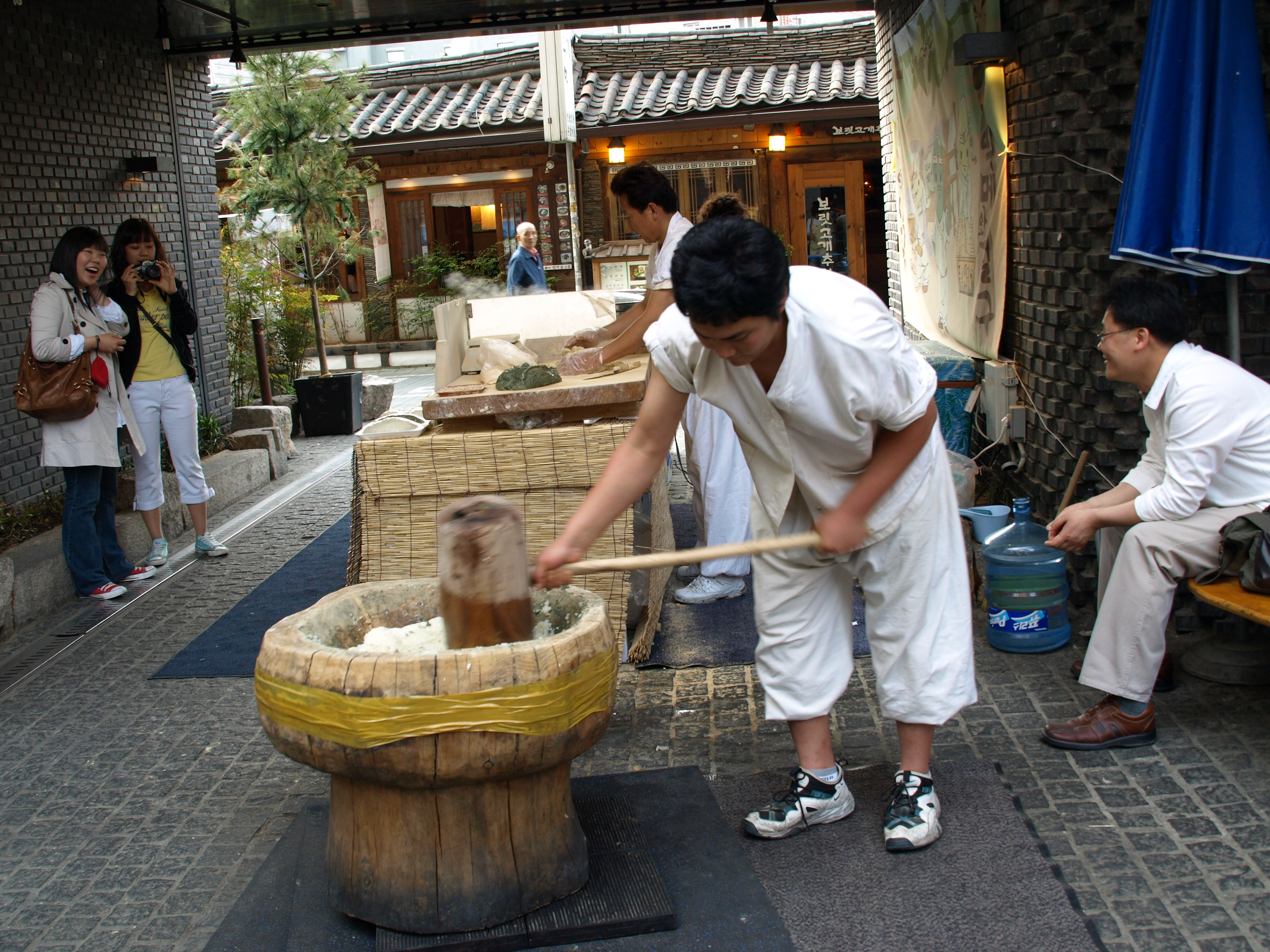 A young man in hanbok pounding tteok (떡 Korean rice cake) placed in jeolgu (절구 mortar) with tteokme (떡메 mallet) at Insadong in Jongno-gu district, Seoul, South Korea.